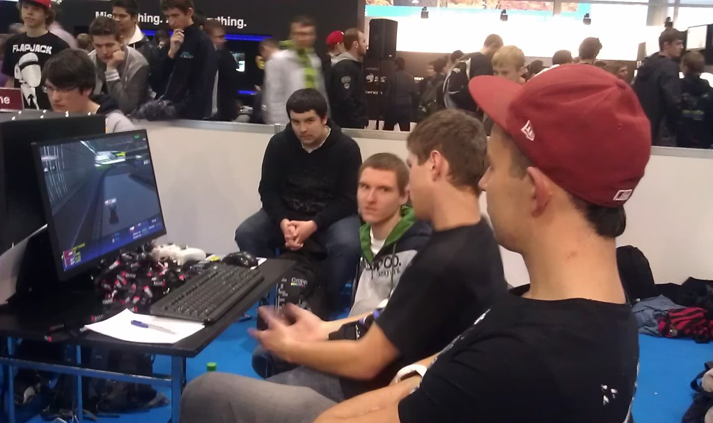 Poznań Game Arena, 2012